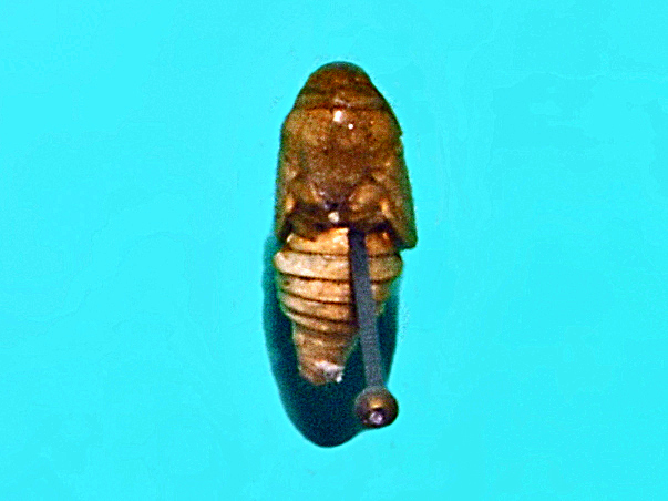 Cydia pomonella. Pupa. Museum specimen